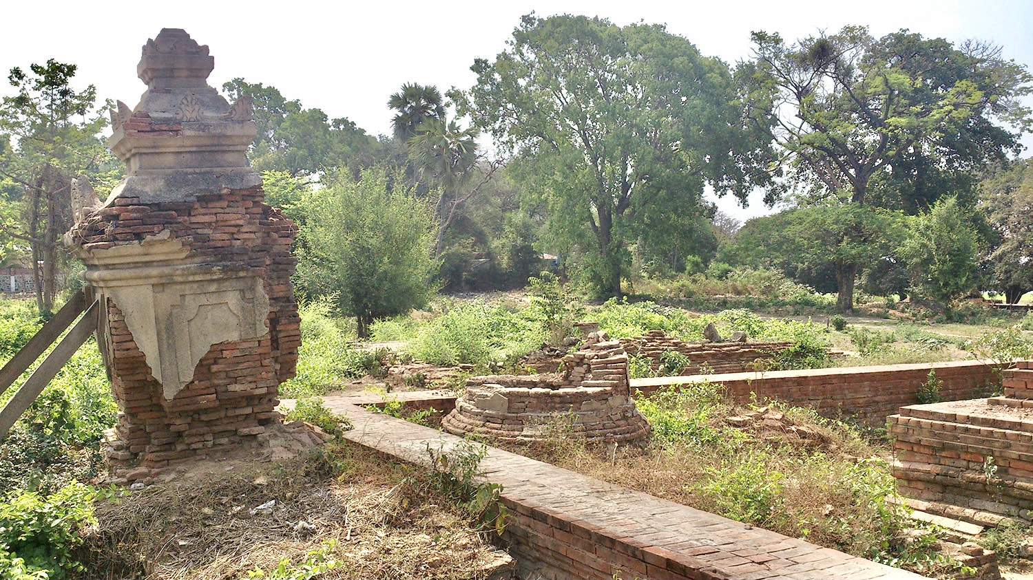 Utumphon's tomb pagoda in Amarapura Township, Myanmar